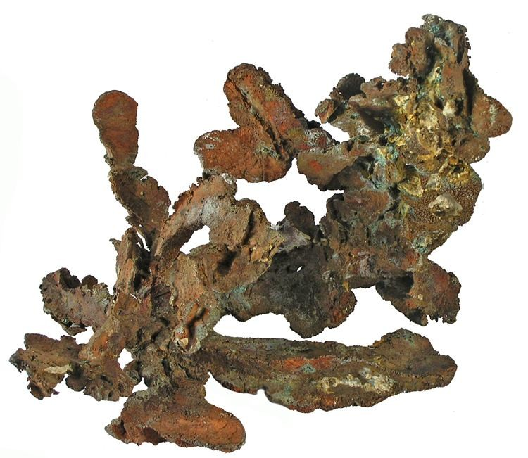 Copper Locality: Tyrone Area, Burro Mountains District, Grant County, New Mexico, USA (Locality at ) Size: 17.4 x 16.5 x 9.4 cm. A very large, incredibly sculptural and dramatic specimen of native copper from New Mexico! It features beautiful leafy forms that grow out in all directions, making the specimen wonderfully 3-dimensional. The branches and "leaves" are beefier and sturdier than they look, despite their elegant form. The surface has a pretty "antique" patina to it. This "sculpture" made by nature weighs in at 2.9 pounds!